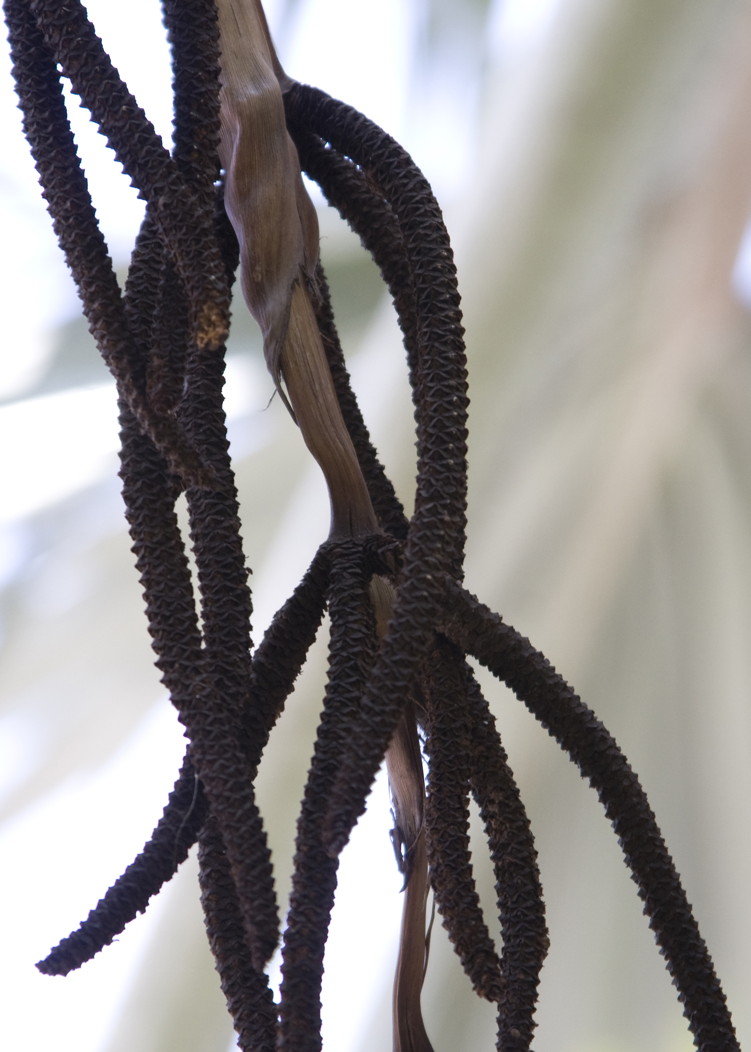 Flowers, rachis, and bract.